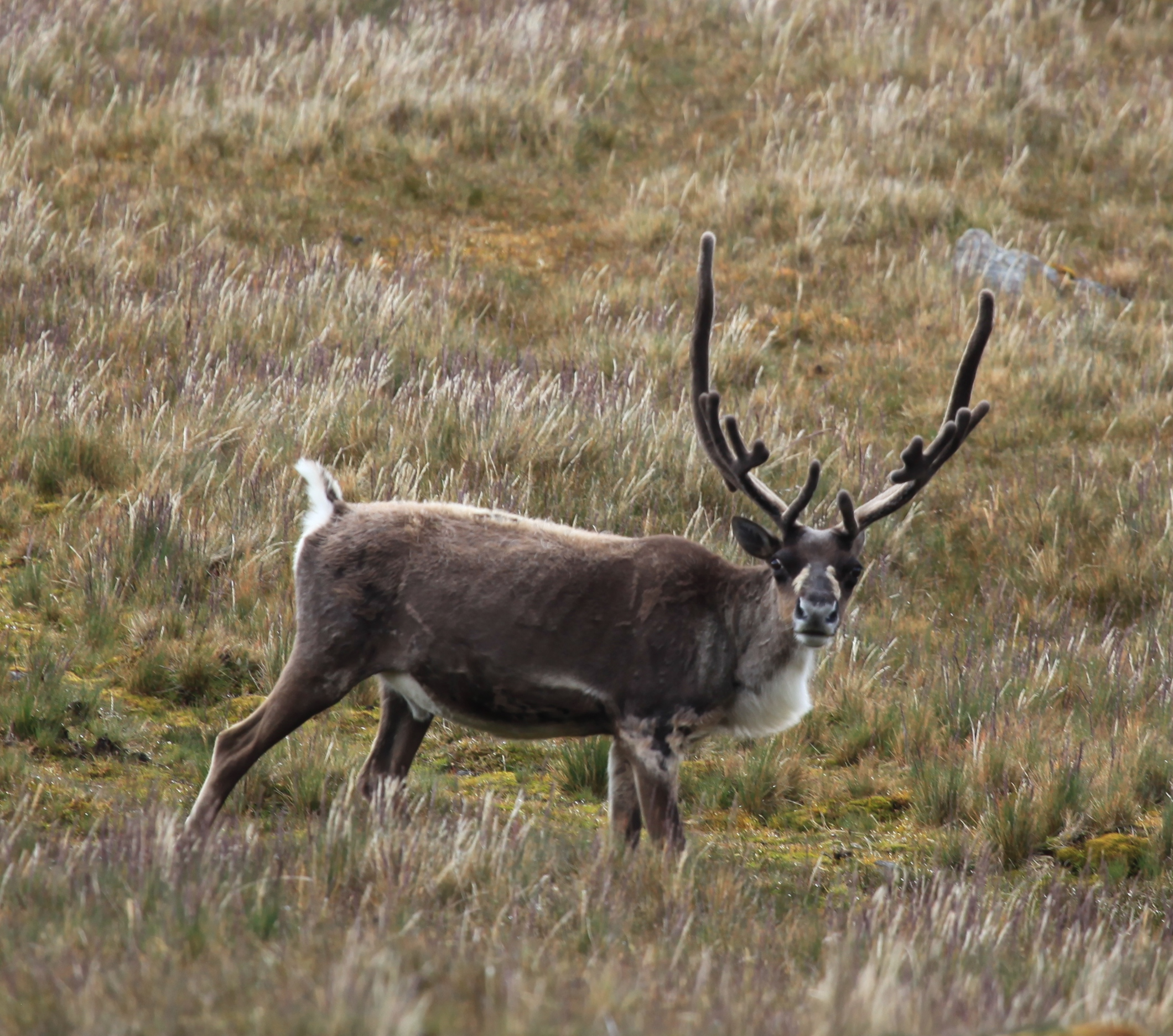 A Reindeer at Godthul, South Georgia